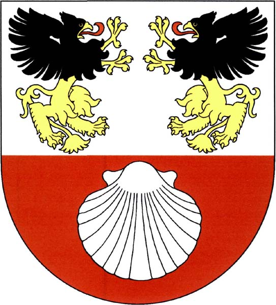 Municipal coat of arms of Zápy market town, Prague-East District, Czech Republic.